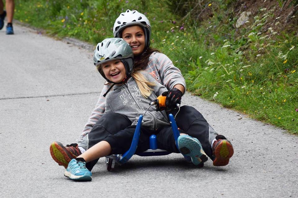 luge natural track on wheels summer Training luge camp